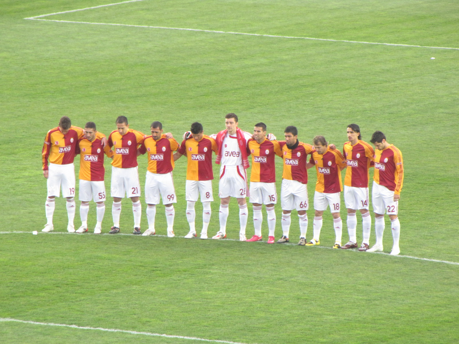 GalatasaraySK Football Team. Before Galatasaray-Fenerbahçe match. List of players: Harry Kewell (Jersey Number #19), Sabri Sarıoğlu(#55), Emre Aşık (#21), Ümit Karan (#99), Barış Özbek (#8), Morgan De Sanctis (#26), Milan Baroš (#15), Arda Turan (#66), Ayhan Akman (#18), Mehmet Topal (#14) and Hakan Balta (#22)